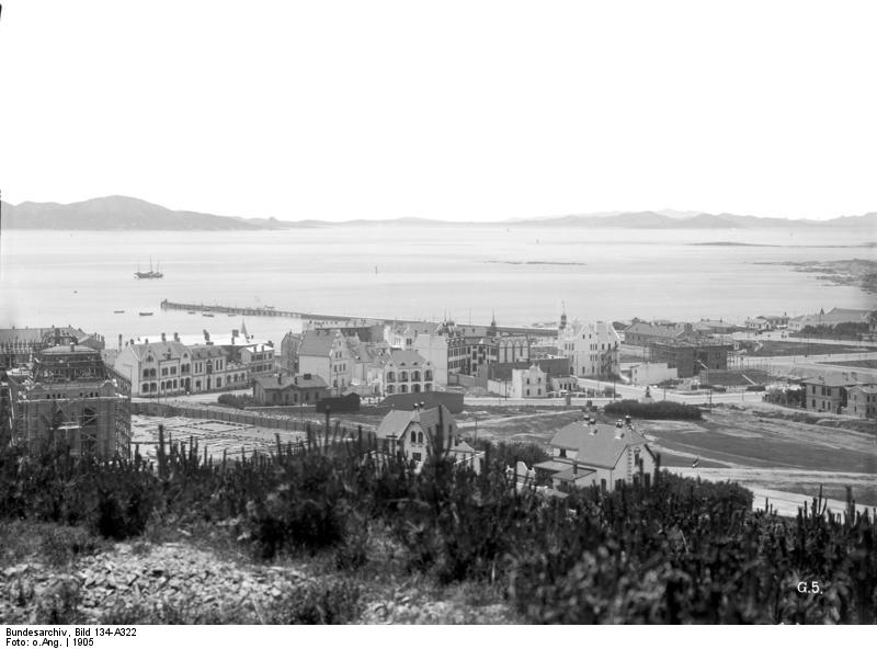 Title: Tsingtau, Panoramaansicht Factual corrections and alternative descriptions are encouraged separately from the original description. Additionally errors can be reported at this page to inform the Bundesarchiv. Original historic description: Schutzgebiet Kiautschou 1905: Tsingtau